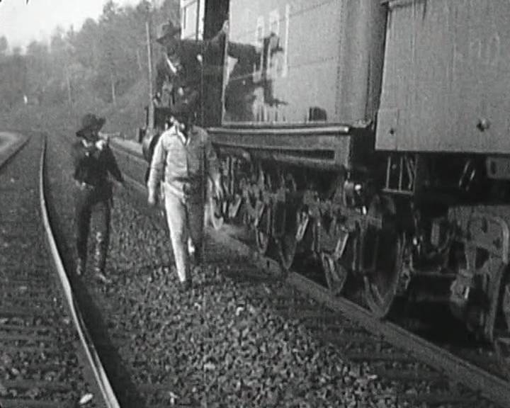 Screenshot from The Great Train Robbery (1903)